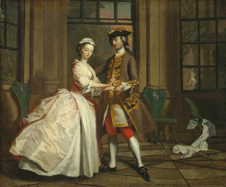 Pamela and Mr B. in the summer house - from Samuel Richardson's novel Pamela